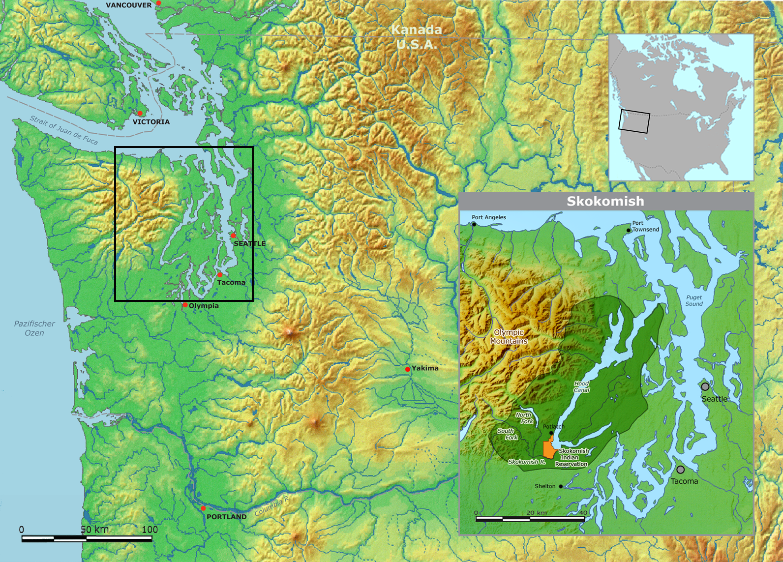 Map of traditional Skokomish tribal territory.